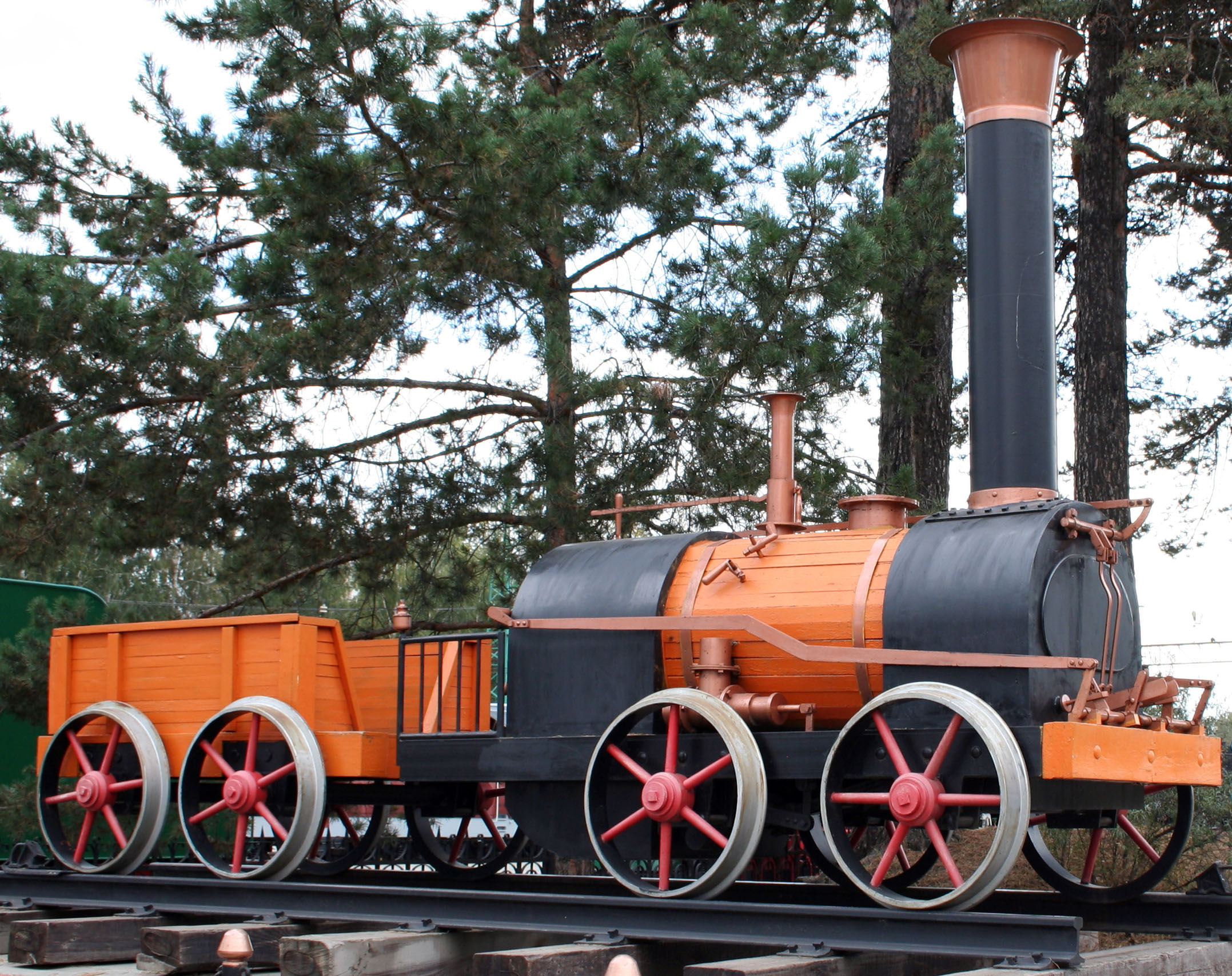 Model (2002) of the steam locomotive constructed by Yefim and Miron Cherepanov (1834) in the Museum of Railway Machinery in Novosibirsk